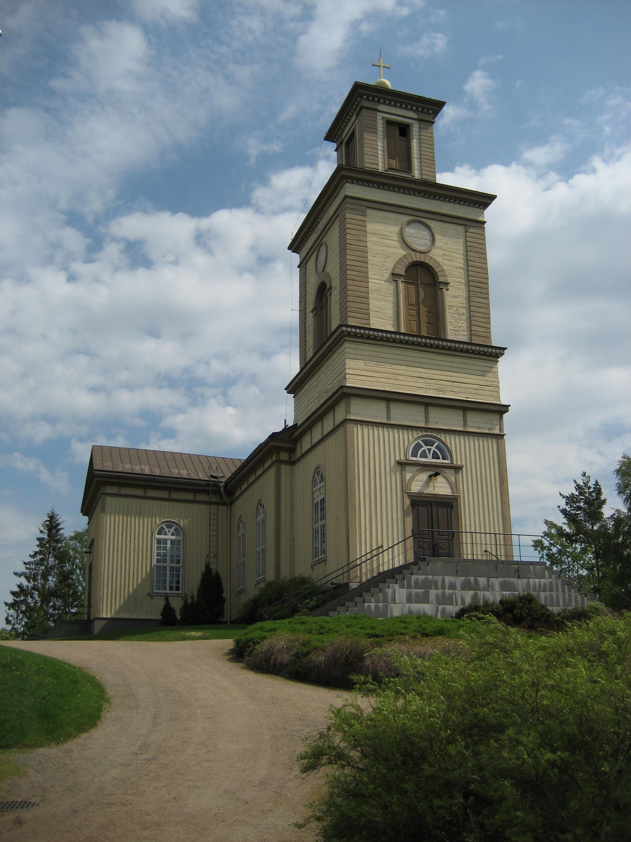 Suodenniemi Church in Suodenniemi, Finland, taken on 14 June 2006.